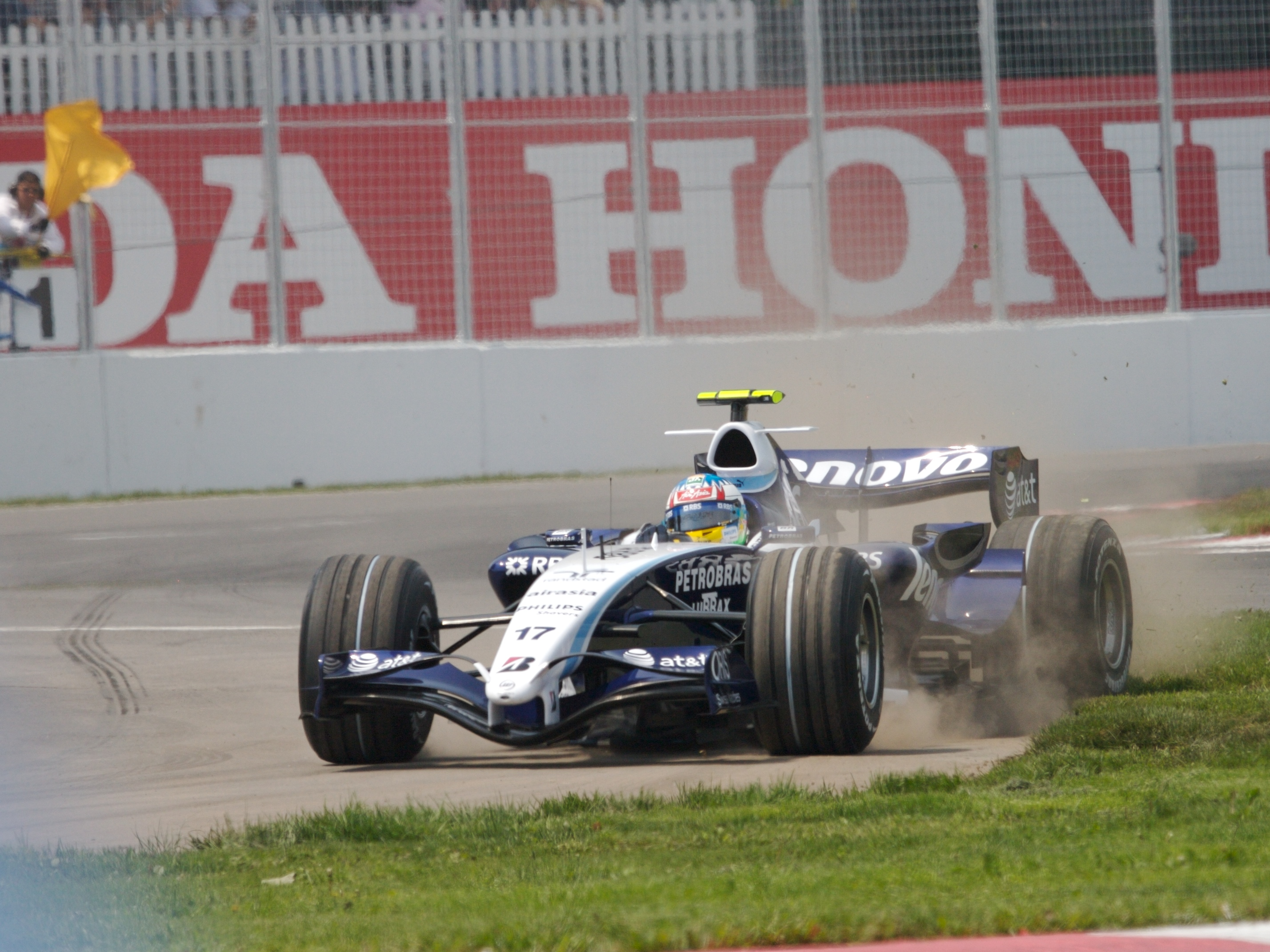 Alexander Wurz driving for WilliamsF1 at the 2007 Canadian Grand Prix.